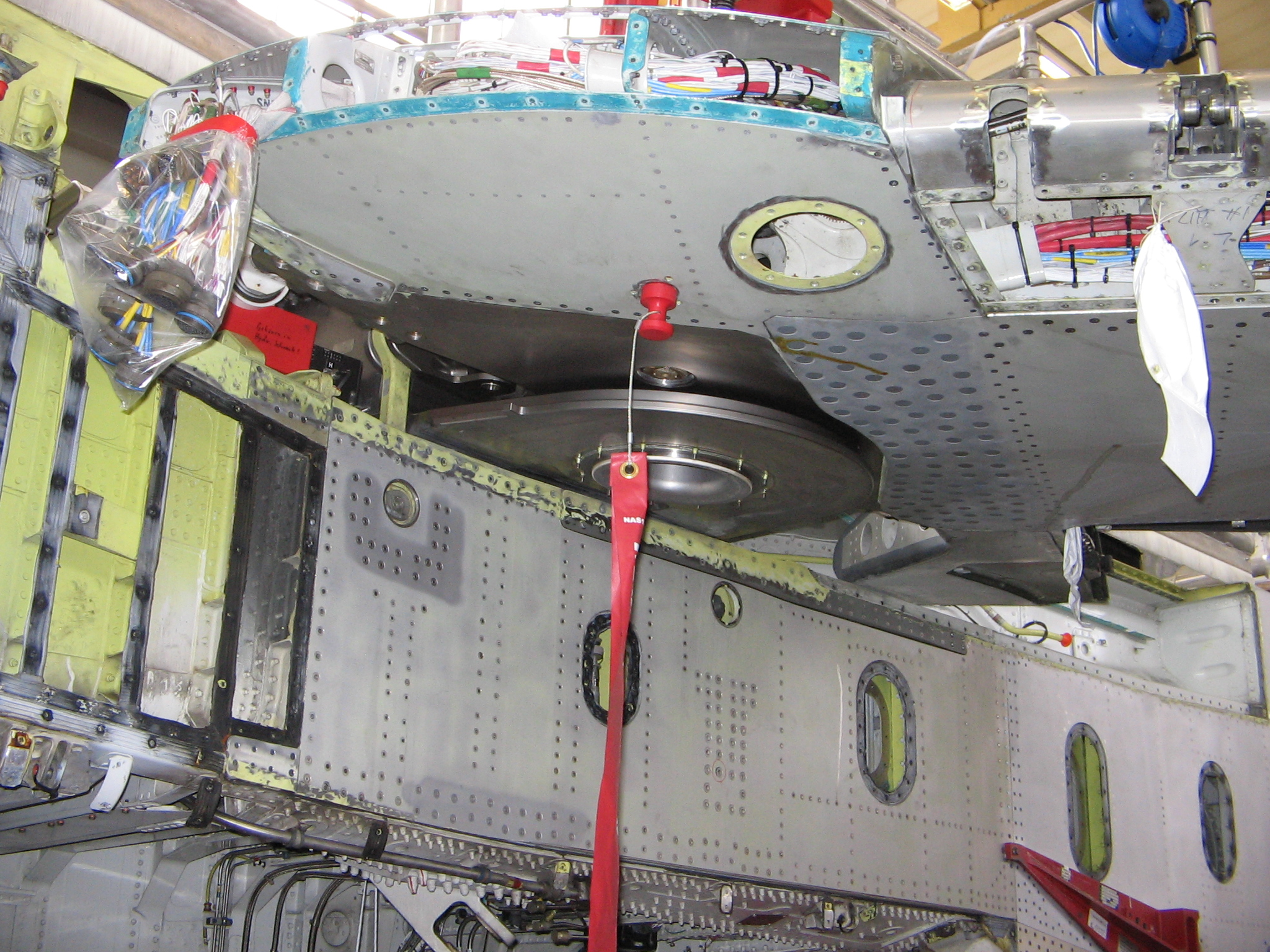 Axis of the variable-sweep wing mechanism of a German Panavia Tornado during overhaul at Ingolstadt Manching Airport (open day event). This is the left wing, the leading edge is in top right-hand corner.